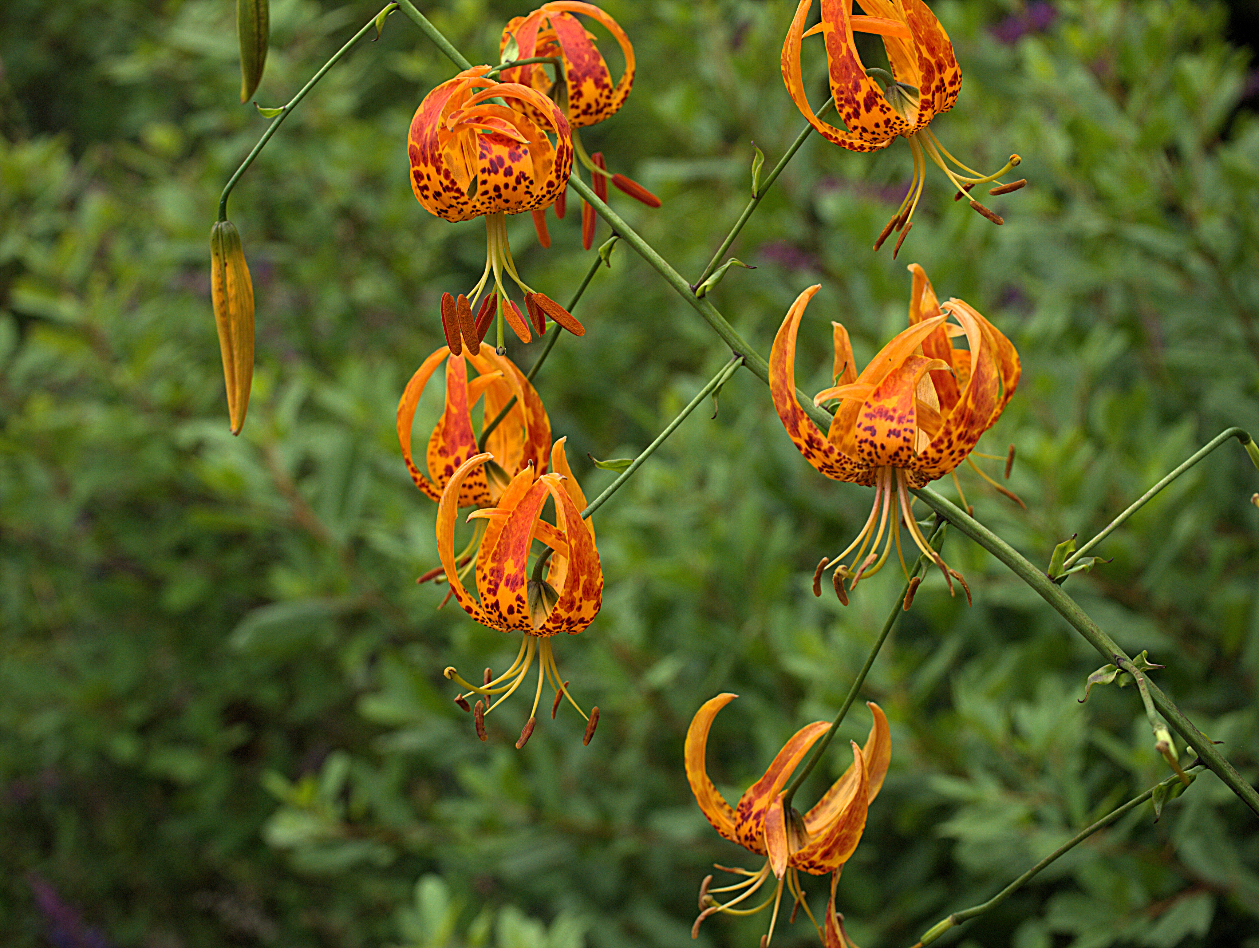 Lilium humboldtii ssp. ocellatum—spotted Humboldt's lily. Included in the CNPS Inventory of Rare and Endangered Plants on list 4.2 (limited distribution). To quote the late Bert Wilson of Las Pilitas Nursery at length: "This subspecies is native from Northern Santa Barbara County south into San Diego County. Commonly growing in canyons or on north slopes. A very showy and attractive lily, a somewhat drought tolerant lily. The lilies are divided into wetland species and dry land species. This is more of a dryland species. Our experience is it likes garden conditions with part sun. Bambi and her chipmunk friends will eat this one. Extremely beautiful and long-lived The plant can have a hundred flowers on it and be two meters high and one wide, if conditions are to its liking and if you can keep the gophers away. In some gardens the flowers may reach the eves of the house". Photographed at Regional Parks Botanic Garden Located in Tilden Regional Park near Berkeley, CA.